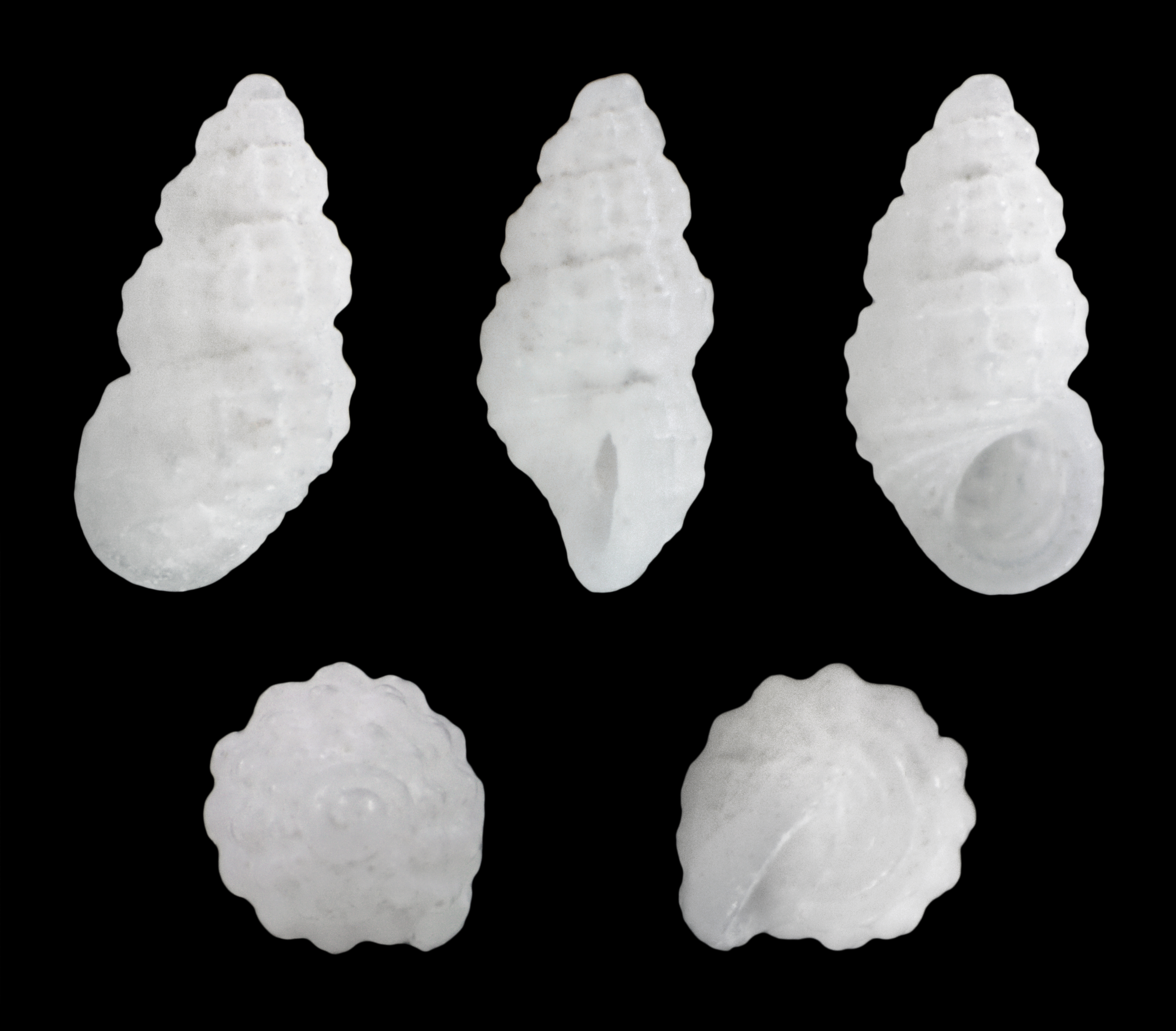 Simulamerelina mauritiana (Martens, 1880); Length 0.18 cm; Originating from Pointe aux Canonniers, Mauritius; Shell of own collection, therefore not geocoded.